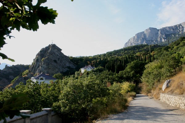 Ifigenia rock in Kastropol, Сrimea, Ukraine